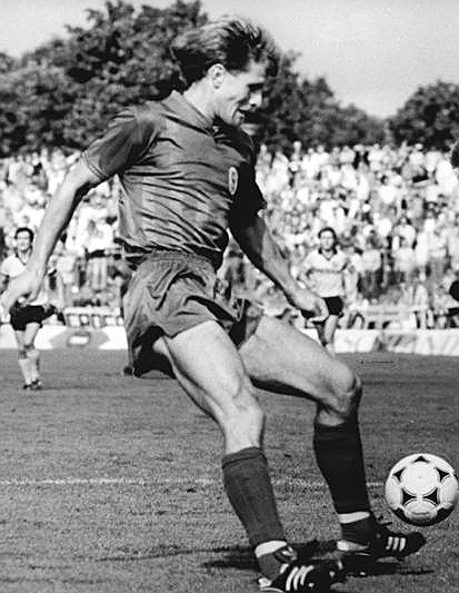 Title: Dynamo Dresden - Stahl Brandenburg 3:1 Factual corrections and alternative descriptions are encouraged separately from the original description. Additionally errors can be reported at this page to inform the Bundesarchiv. Original historic description: Jens Pahlke, Stahl Brandenburg, 1988